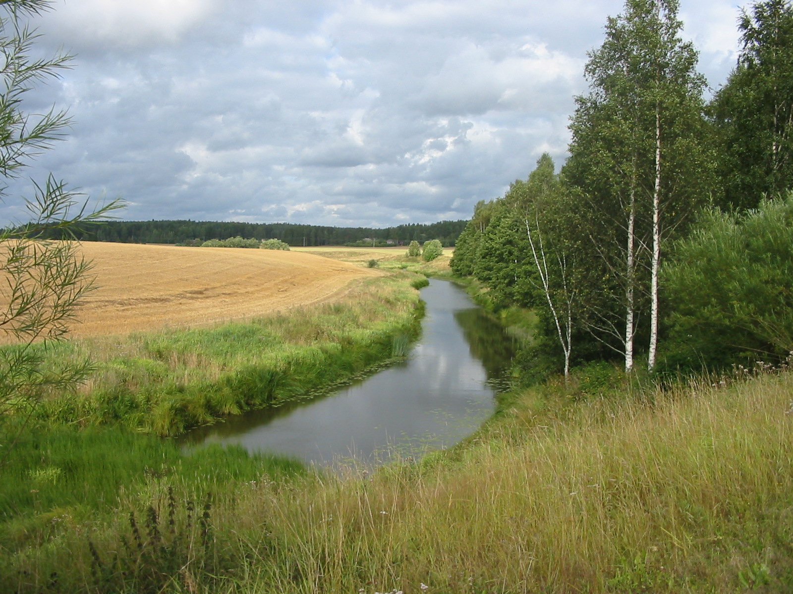 River Tarvasjoki in Tarvasjoki, Finland